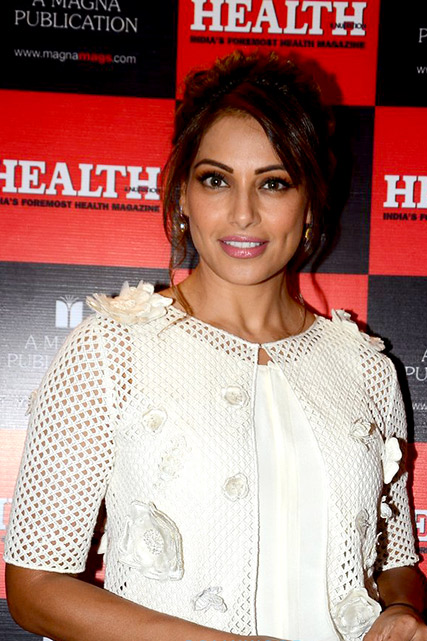 Bipasha Basu unveils Health’s latest magazine cover in March, 2017.